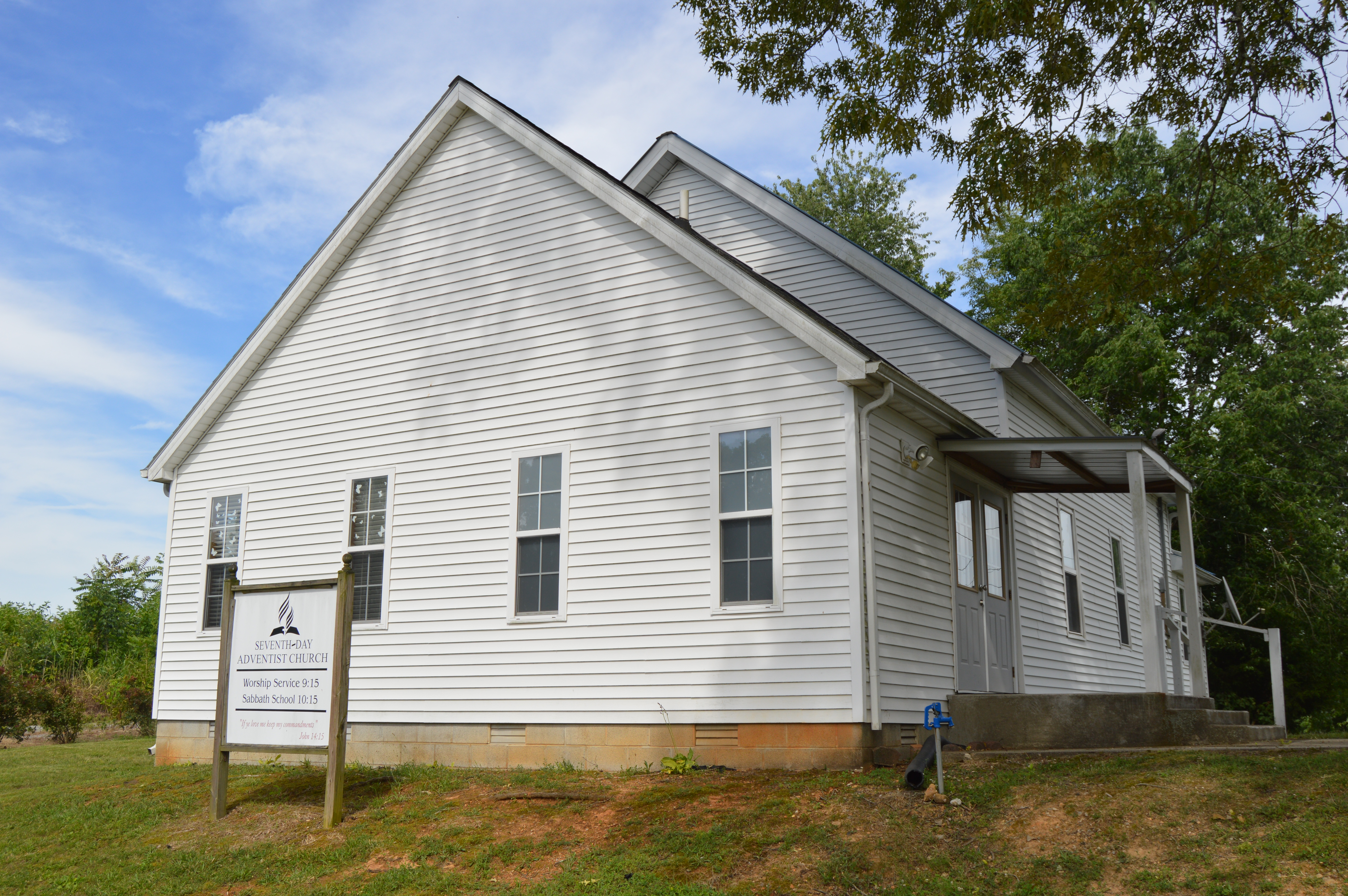 Front and southern side of the Seventh-day Adventist Church on Freedom Road at Freedom in Russell County, Kentucky, United States.